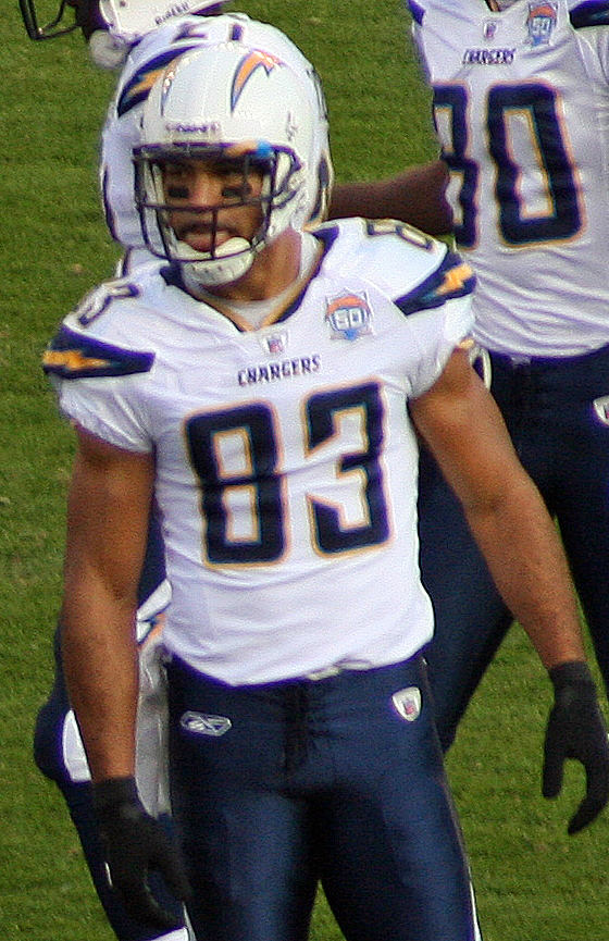 Vincent Jackson, a player with the San Diego Chargers American football team.